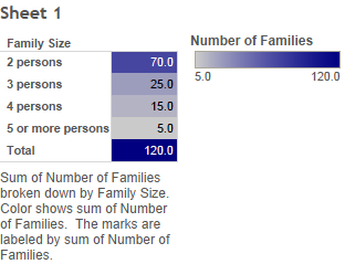 Family Size in Willow Bunch